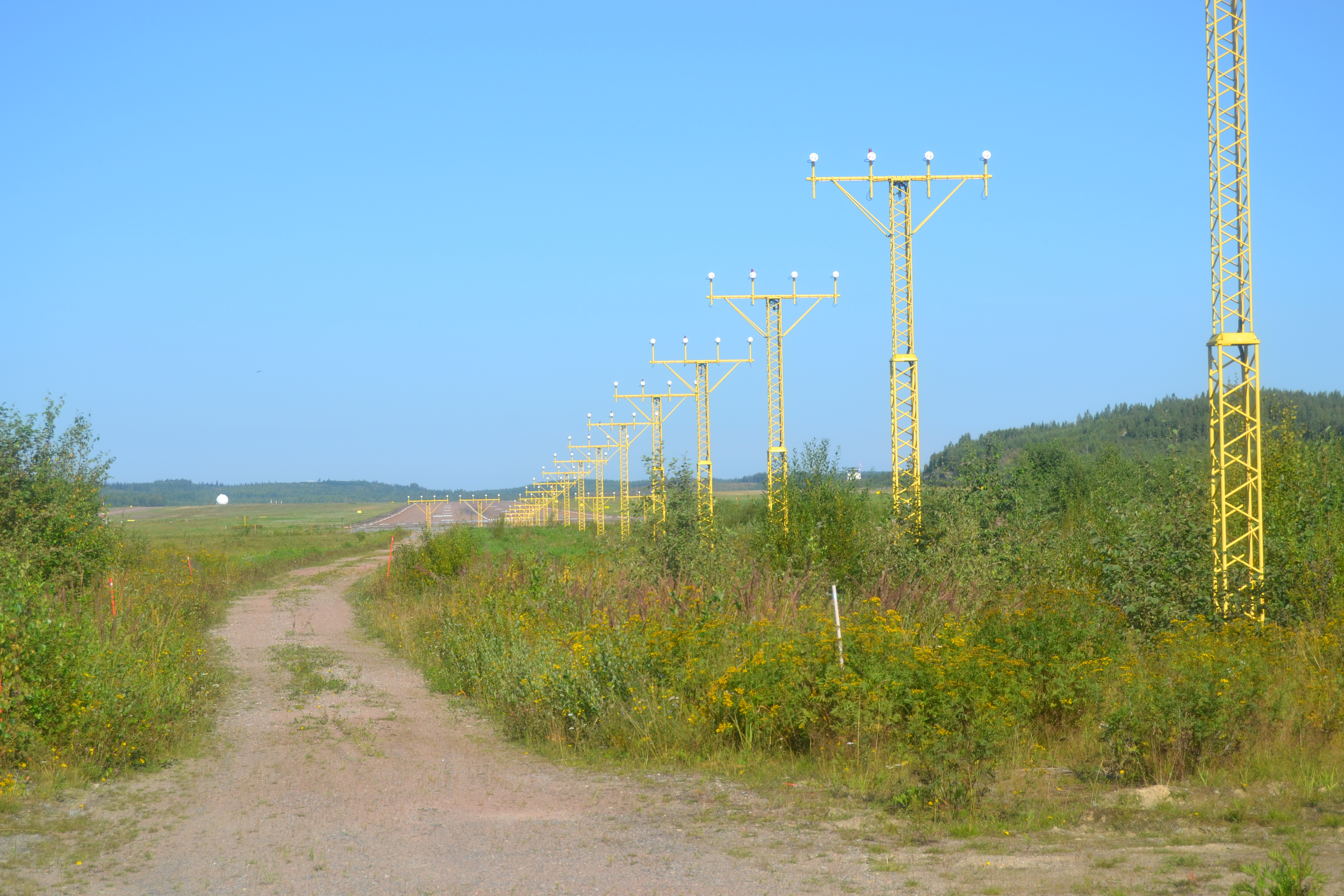 Approach lights of runway 30 at Jyväskylä Airport (JYV/EFJY) in Jyväskylä, Finland.